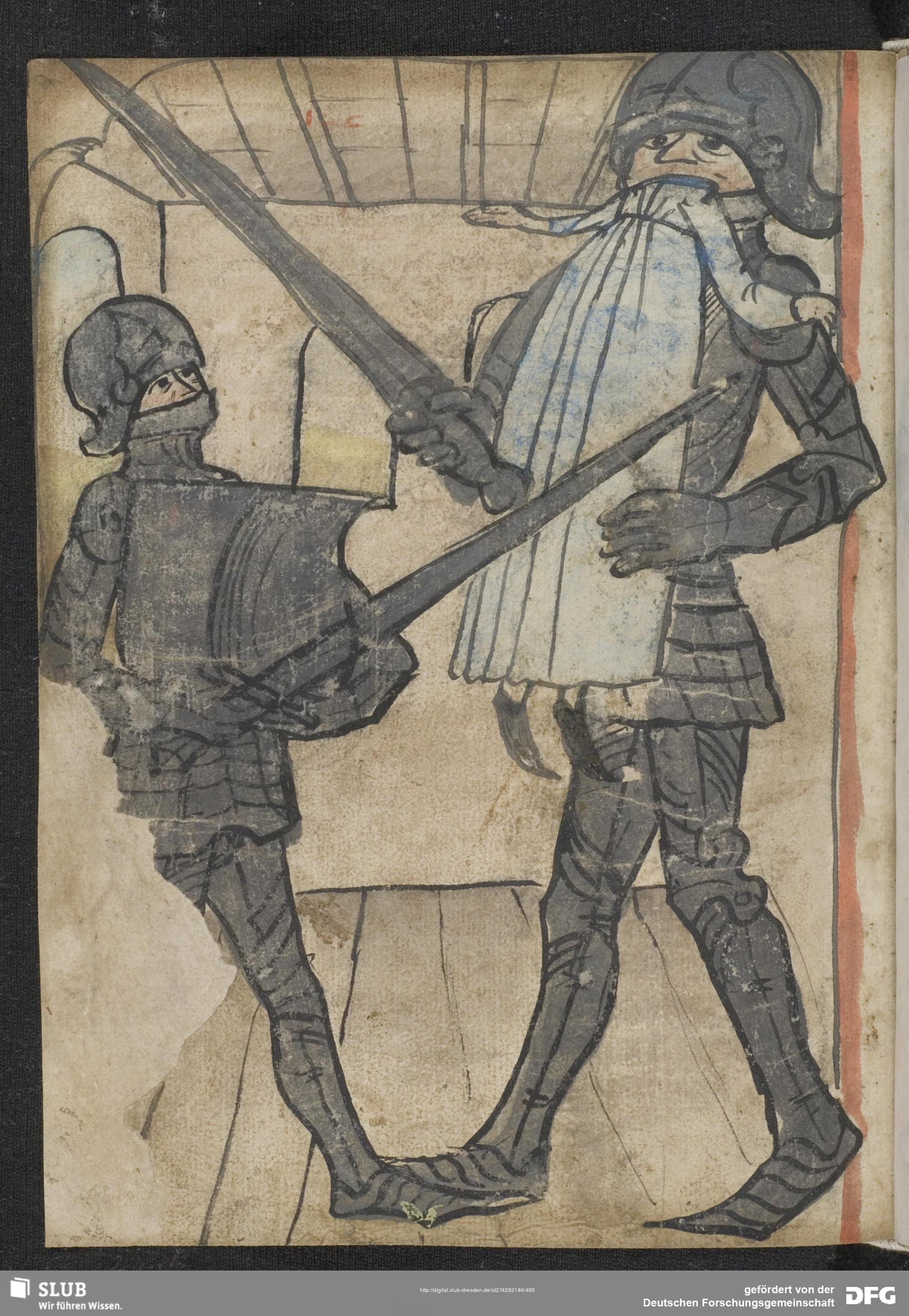 Dietrich kaempft gegen den Wunderer. SLUB Dresden Mscr. Dresd. M. 201 fol. 240v.